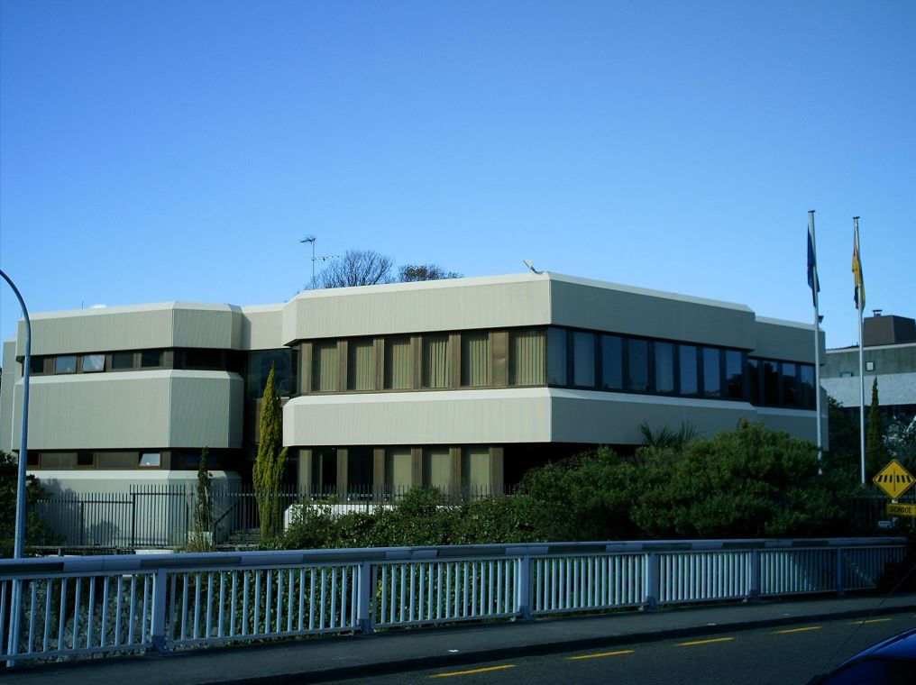 Photo of the German diplomatic mission in Wellington, New Zealand